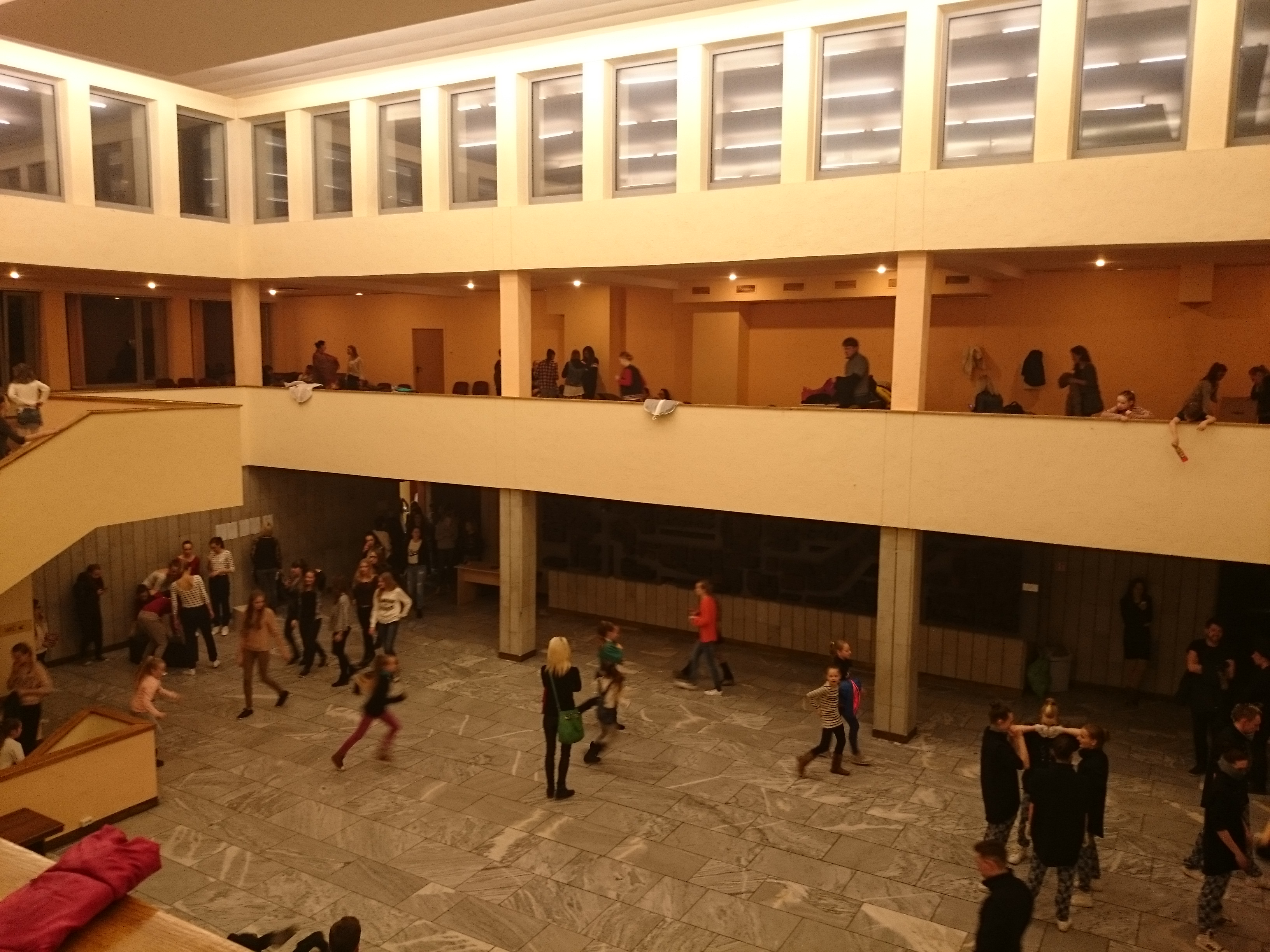 Girstutis